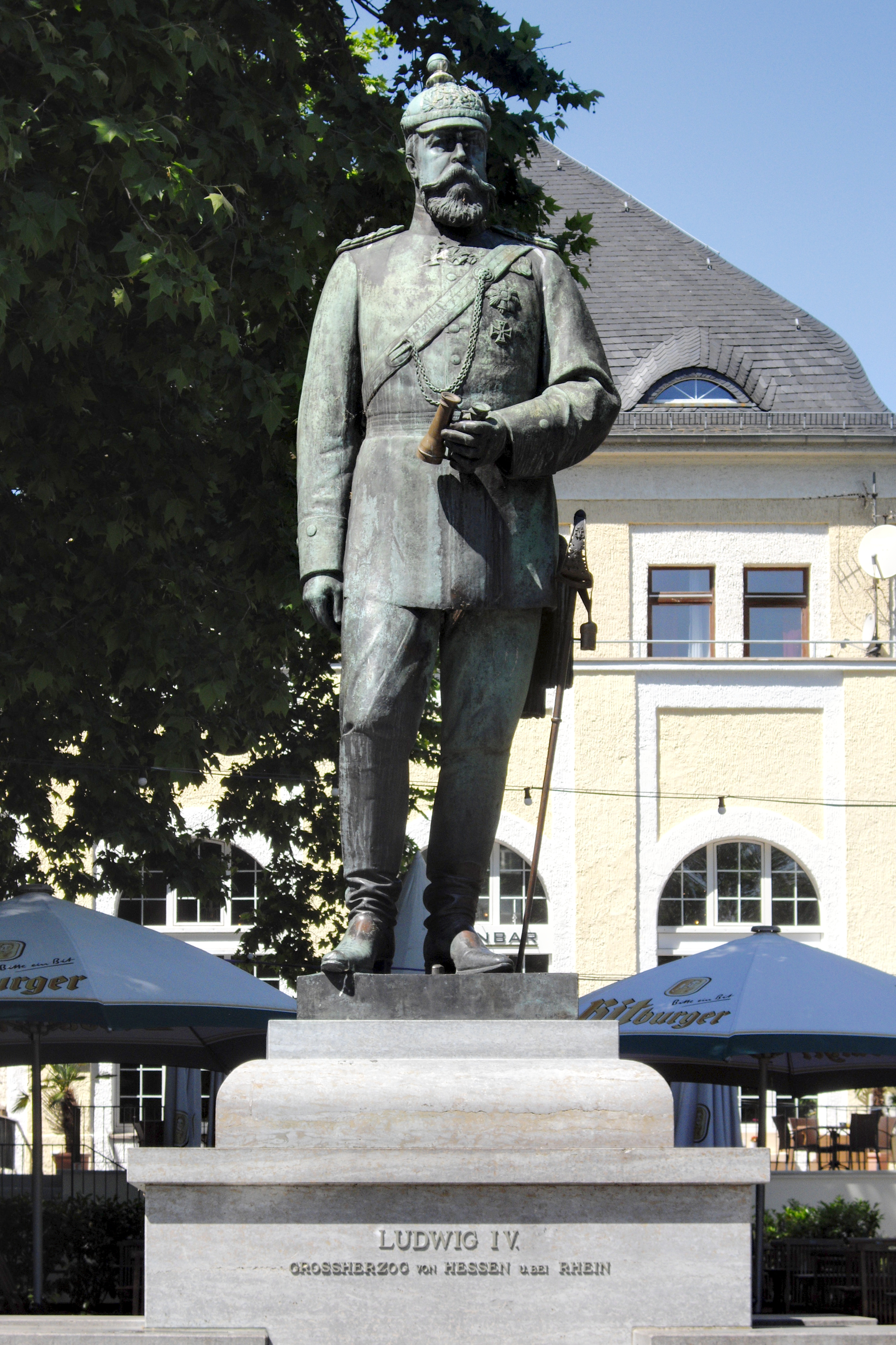 Monument to the grand duke Ludwig IV. of Hesse (1837-1892) at Bingen, Rhine, Germany; Bronze statue, 1913